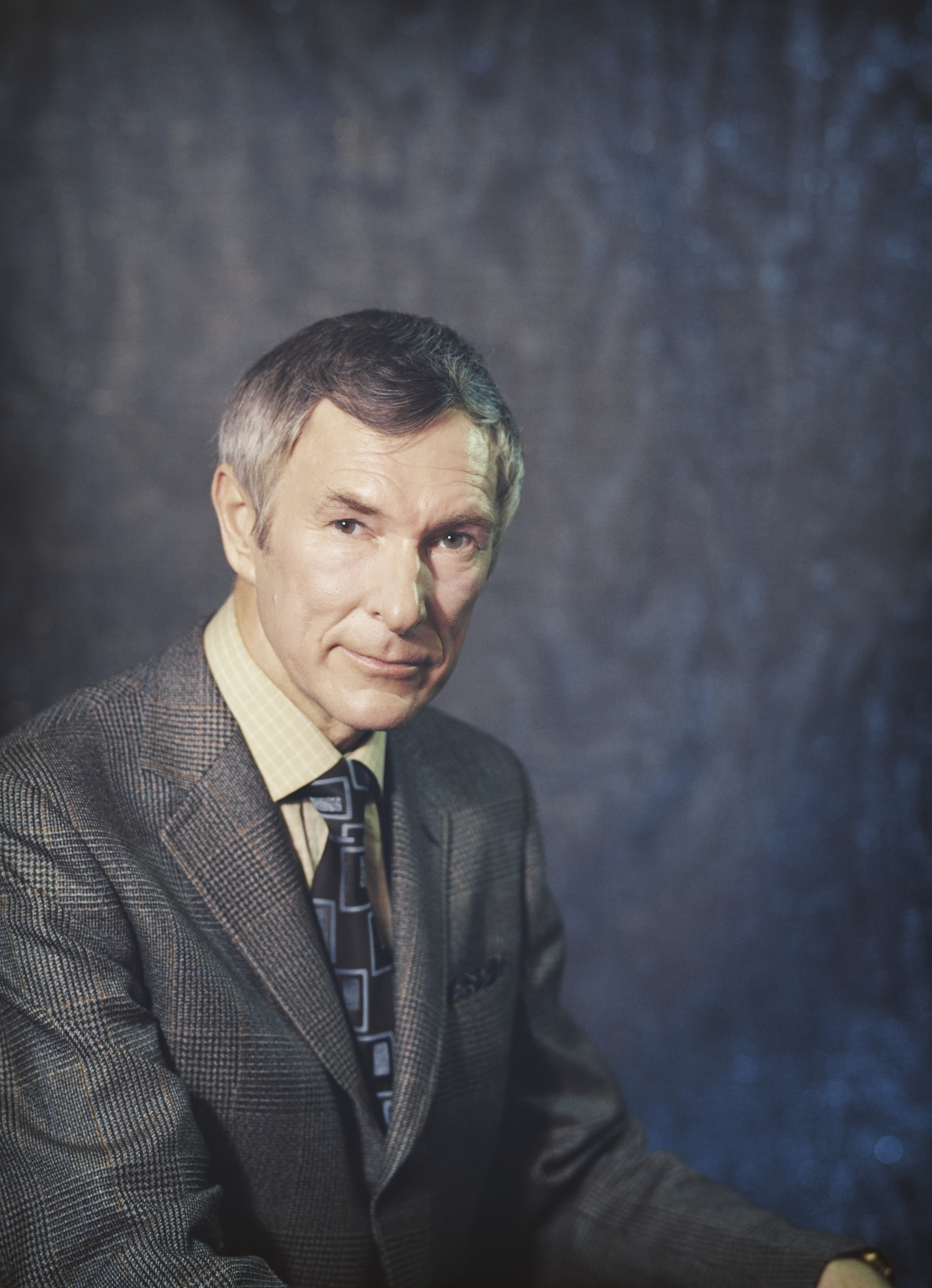 Photograph of the Finnish agriculturist and professor Juhani Paatela (1917–2008).